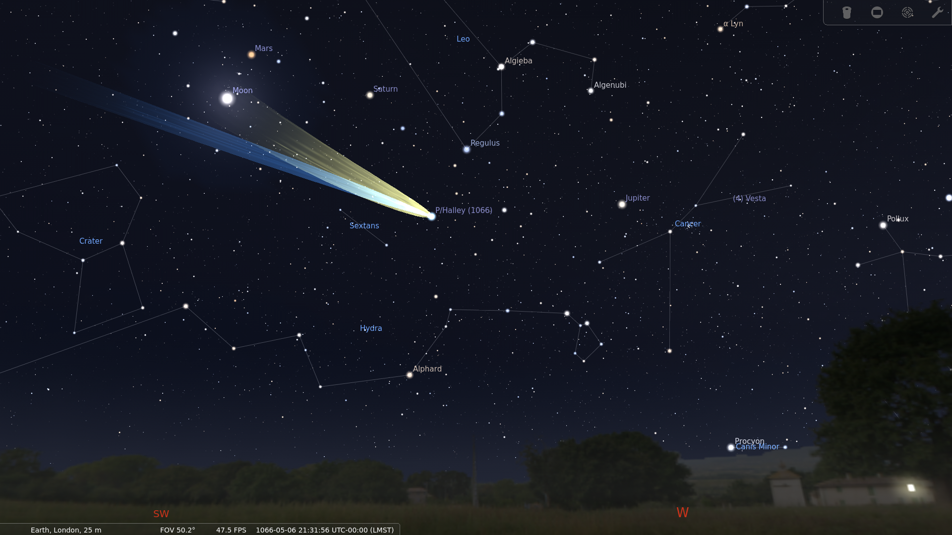 Comet Halley as seen from London on 1066-05-06, simulated in Stellarium. Note that showing historical comets in Stellarium requires enabling the Solar System Editor plugin and loading "ssystem_1000comets.ini", as covered in section 12.8 of the Stellarium user manual.